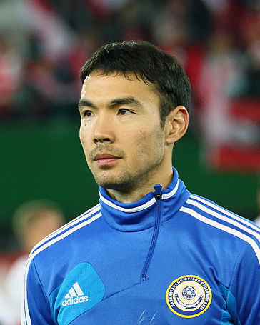 Kairat Nurdauletov before the match against Austria on October 16th 2012